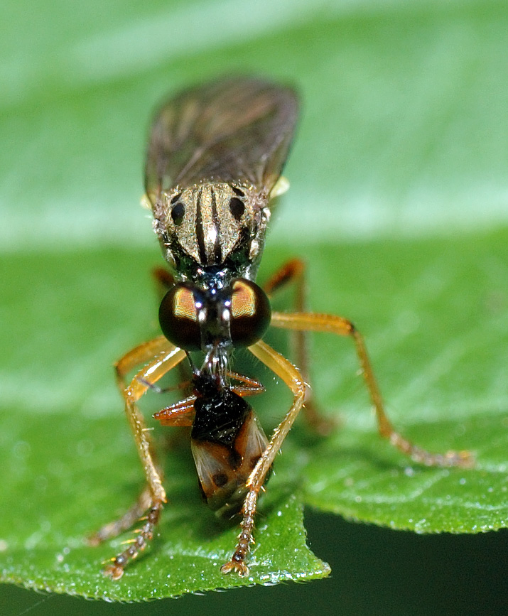 This image shows an 0.3 inch (8 mm) long female robber fly of the species Dioctria linearis while sucking a bug of the species Anthocoris nemorum. Thanks to Doc Taxon for identifying these animals.